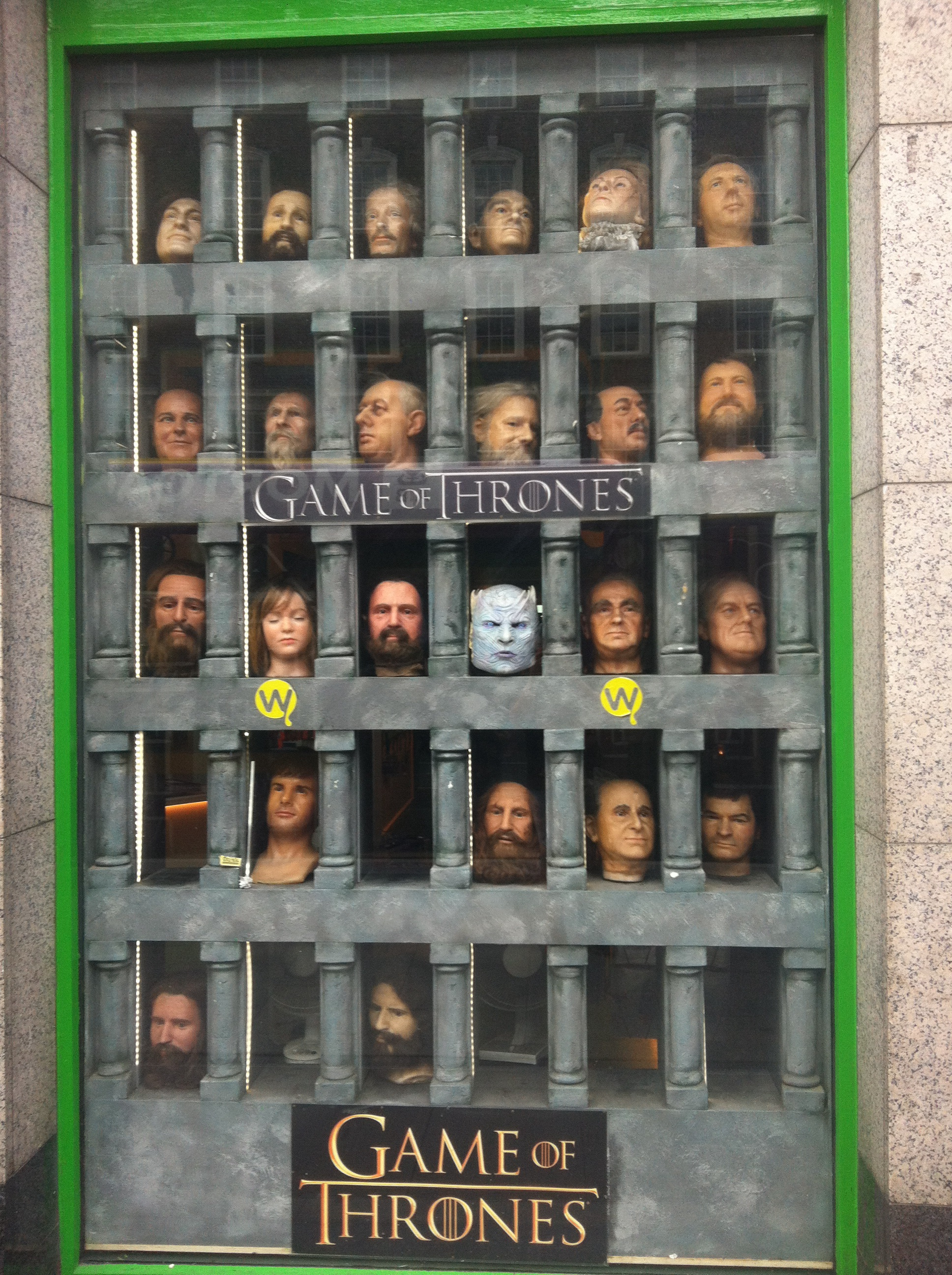 This is a photograph of a Game of Thrones exhibit in the National Wax Museum in Dublin